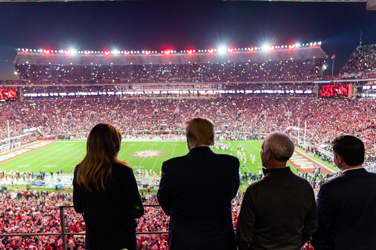 President Donald J. Trump and First Lady Melania Trump watch the action on the field at Bryant-Denny Stadium Saturday, Nov. 9, 2019, while attending the University of Alabama -Louisiana State University football game in Tuscaloosa, Ala. (Official White House Photo by Shealah Craighead)